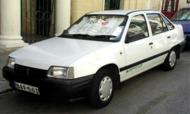 Daewoo Racer